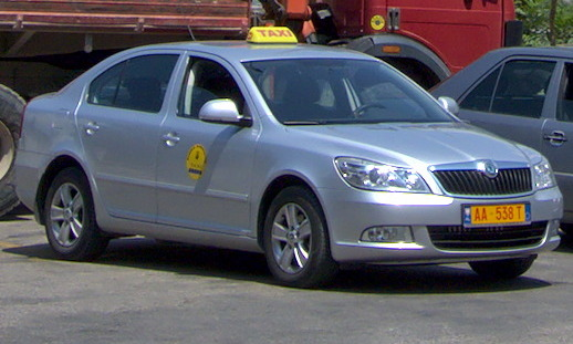 Gjirokastra: taxi rank at the main parking place near the historic town centre, in the background the Lunxhërisë mountain